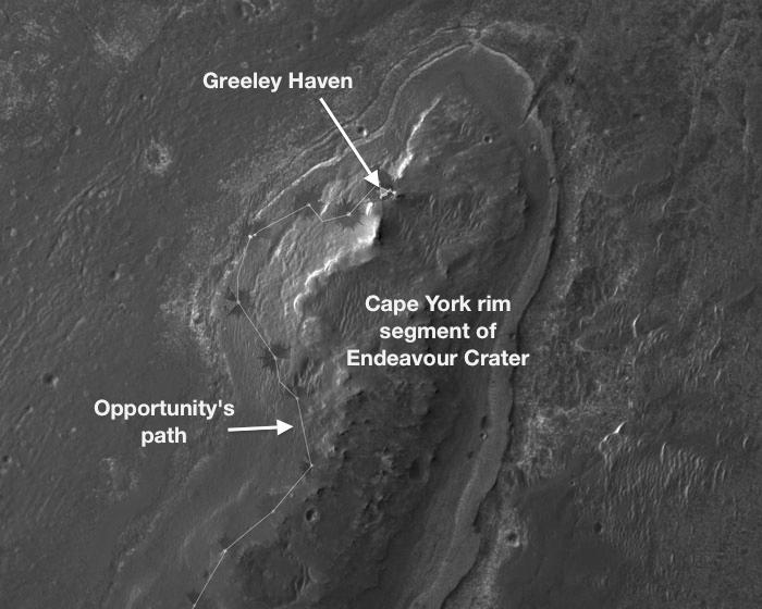 NASA's Mars Exploration Rover Opportunity will spend its fifth Martian winter working at a location informally named "Greeley Haven." This site is an outcrop near the northern tip of the "Cape York" segment of the western rim of Endeavour Crater. It provides a north-facing slope of 15 degrees or more to aid electric output from Opportunity's solar array. It also presents geological targets of interest for investigating during months of limited mobility while the rover stays on the slope. This image, covering an area about 2,000 feet (about 600 meters) wide, indicates the location of Greeley Haven on Cape York. The base image of the map is a portion of an image taken by the High Resolution Imaging Science Experiment (HiRISE) instrument on NASA's Mars Reconnaissance Orbiter, on July 23, 2010. Other image products from this observation are available at NASA's Jet Propulsion Laboratory, a division of the California Institute of Technology, Pasadena, manages the Mars Exploration Rover Project and the Mars Reconnaissance Orbiter Project for the NASA Science Mission Directorate, Washington.The University of Arizona, Tucson, operates the HiRISE camera, which was built by Ball Aerospace & Technologies Corp., Boulder, Colo. Lockheed Martin Space Systems, Denver, is the spacecraft development and integration contractor for the project and built the spacecraft.